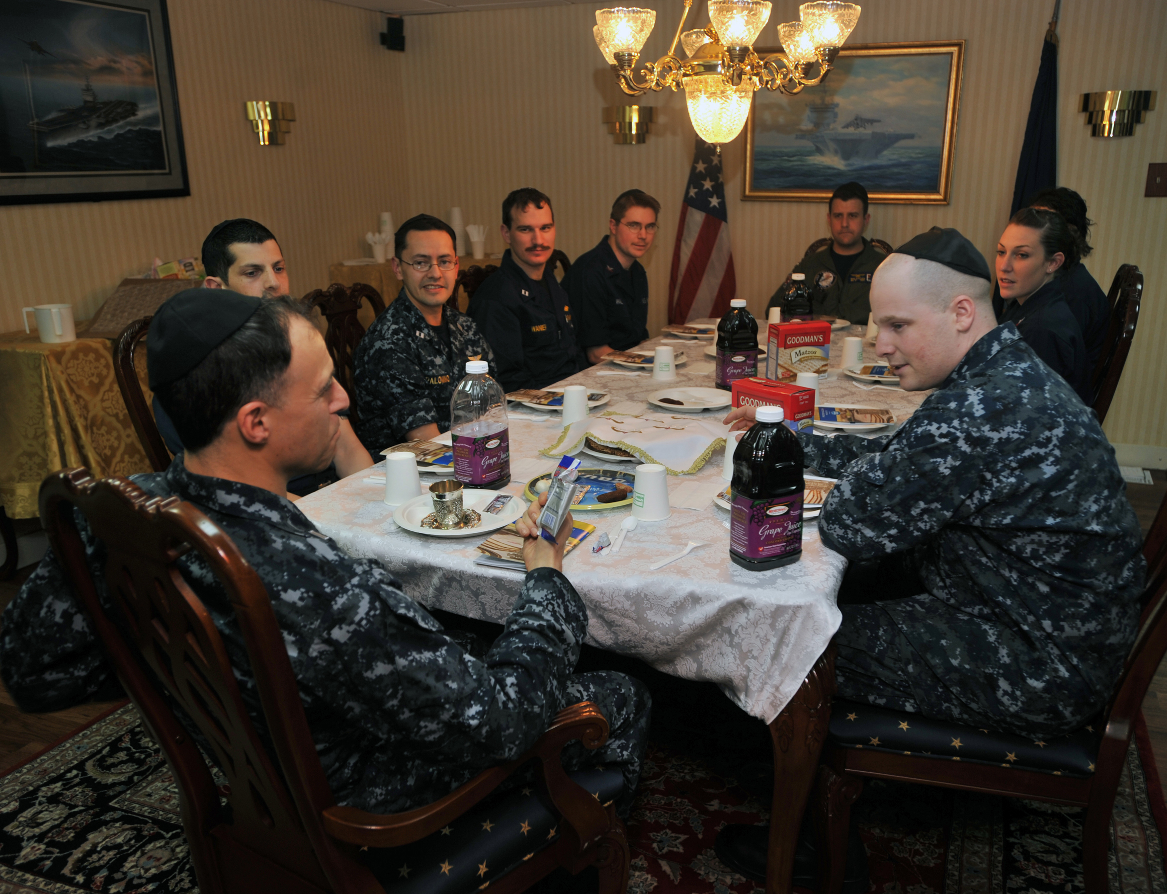 ARABIAN GULF (April 16, 2011) Lt. Neal Kreisler, a rabbi chaplain assigned to Marine Air Group 11 at Marine Corps Air Station Miramar, prepares to conduct a pre-Passover meal with Jewish Sailors aboard the aircraft carrier USS Enterprise (CVN 65). Enterprise and Carrier Air Wing (CVW) 1 are conducting operations in support of Operation New Dawn in the U.S. 5th Fleet area of responsibility. (U.S. Navy photo by Mass Communication Specialist 3rd Class Nick C. Scott/Released)